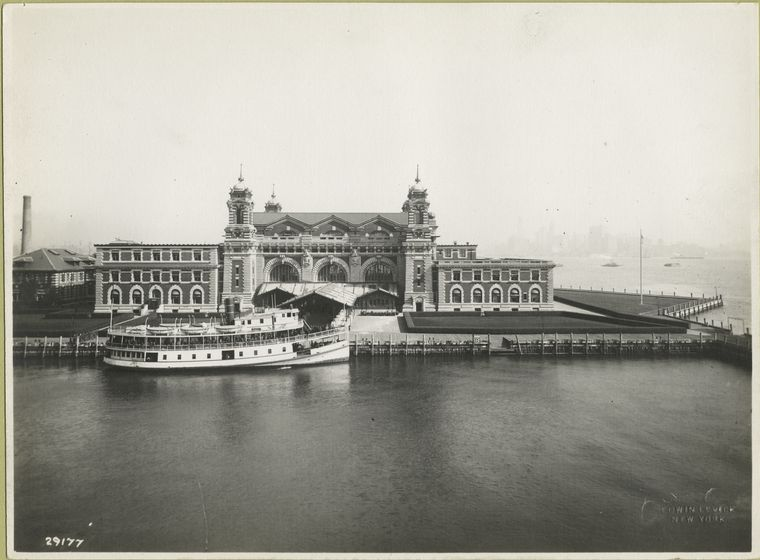 Digital ID: 416779. An excellent view of the front facade of the Immigration Station; a boat is docked in front.. Levick, Edwin -- Photographer. 1902-1913 Notes: No. 29177. Source: Photographs of Ellis Island, 1902-1913. ( Repository: The New York Public Library. Photography Collection, Miriam and Ira D. Wallach Division of Art, Prints and Photographs. See more information about and others at Persistent URL: Rights Info: No known copyright restrictions; may be subject to third party rights (for more information